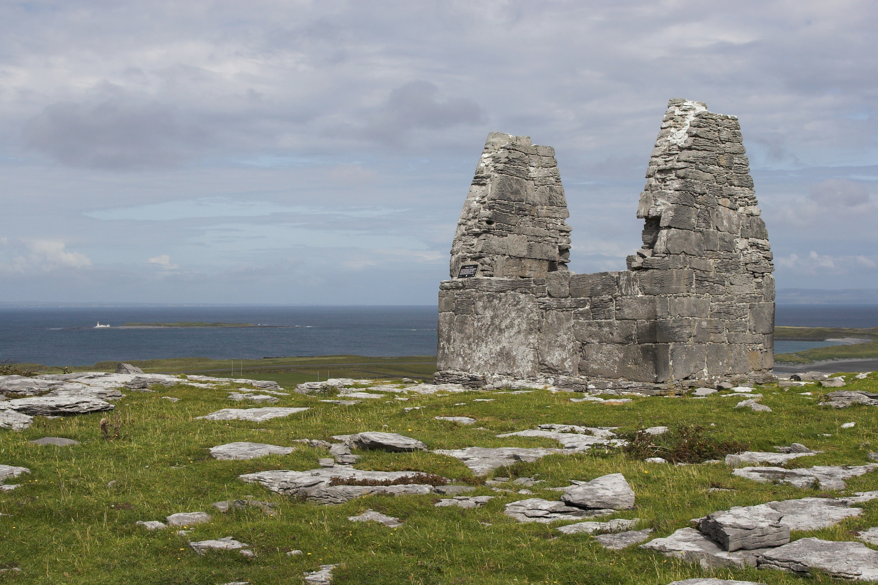 Ruins of Teampall Bheanain (Church of Saint Benan) near Killeany, Inishmore